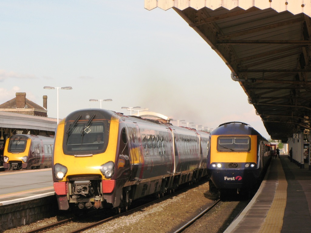 Two trains going to Penzance at Taunton station in Somerset, England. On the left is Voyager 220016 with a CrossCountry train from the north, on the right is InterCity 125 43012 with a First Great Western train from London Paddington. The second Voyager in the background is on a Plymouth to Leeds service.